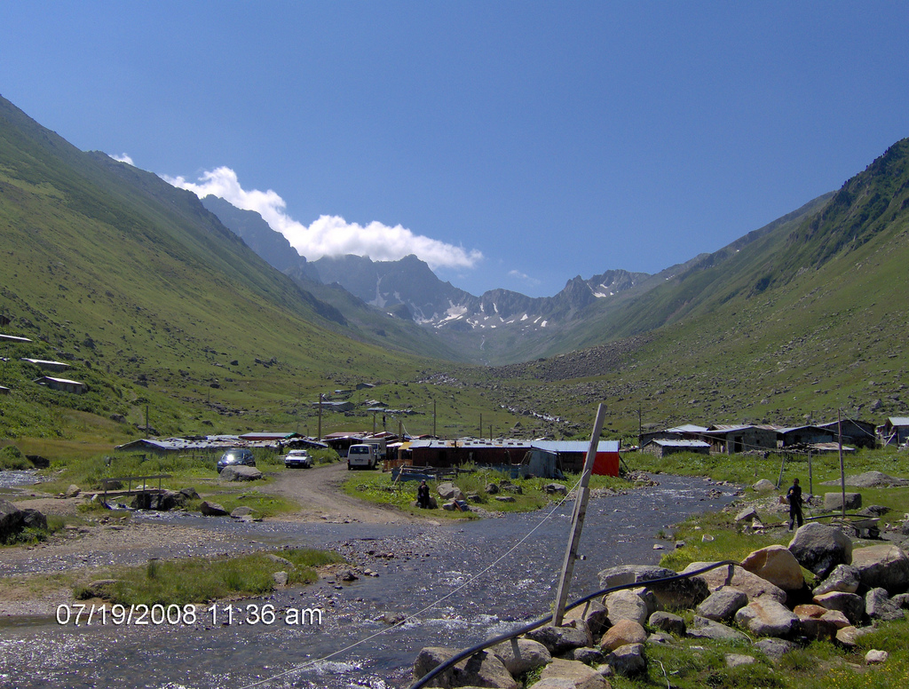 A view of the summer pasture of Kavrun, in the Çamlıhemşin district of Rize province, northeastern Turkey.